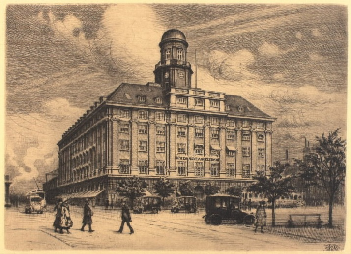 Axelborg in Copenhagen, originally headquarters of Den Danske Andelsbank, now headquarters of the Danish agricultural organizations.